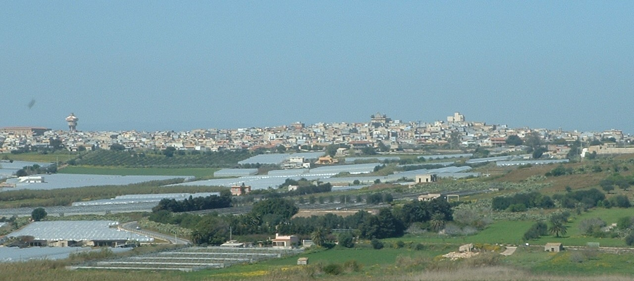 Pachino (SR), View of town with greenhouses in front.